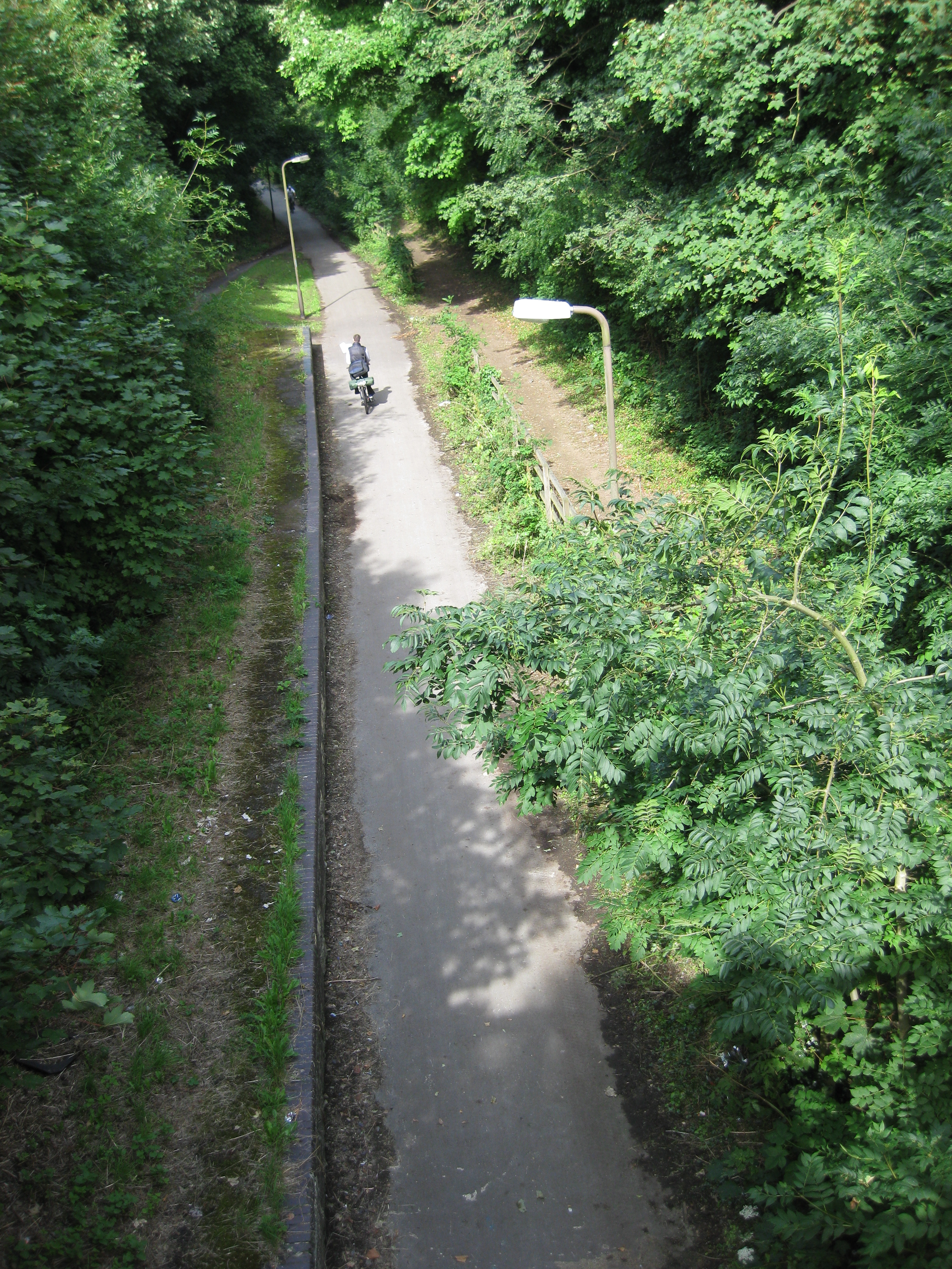 Site of former Bradwell Halt on the Wolverton - Newport Pagnell branch line. It is now a cycleway